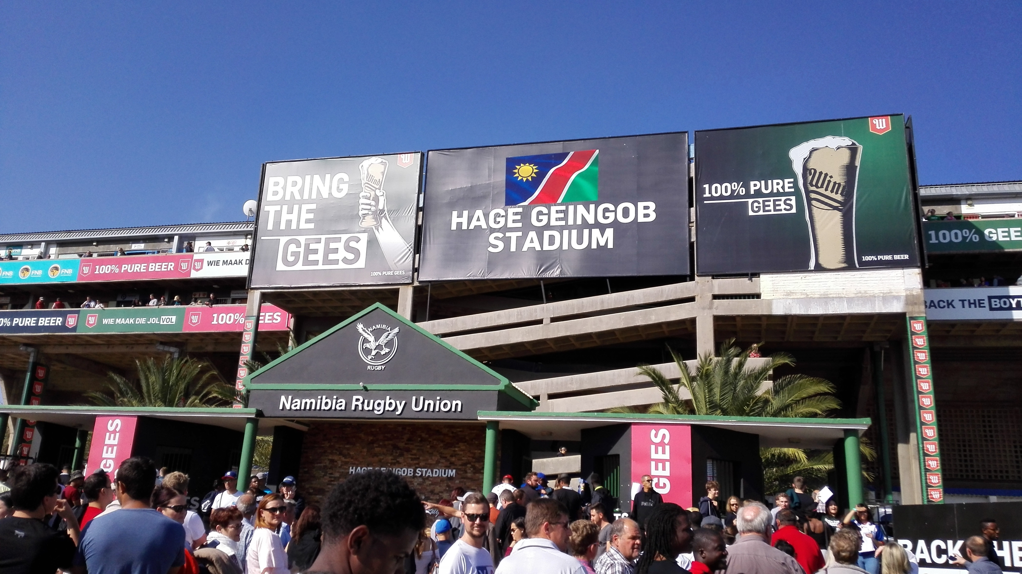 Hage Geingob Stadium, Rugby Stadium, Windhoek, Namibia